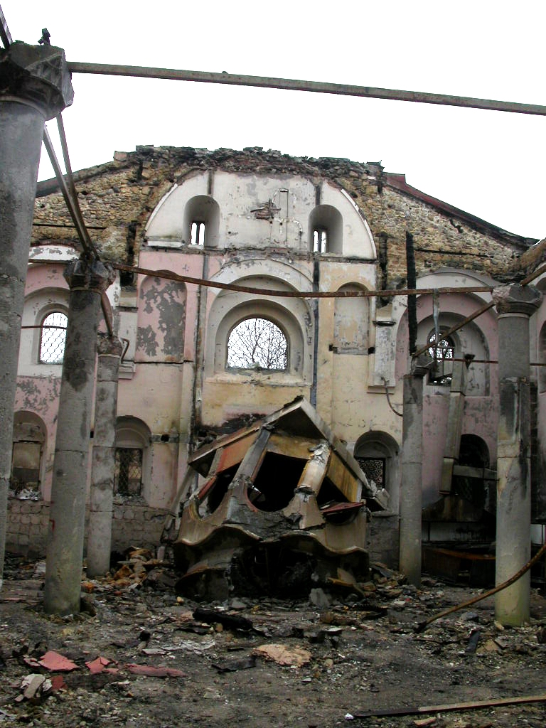 Destroyed Serbian St. George Cathedral from 1855 in Kosovo, interior. Cathedral was destroyed during expulsion of Serbs from Kosovo in march 2004.